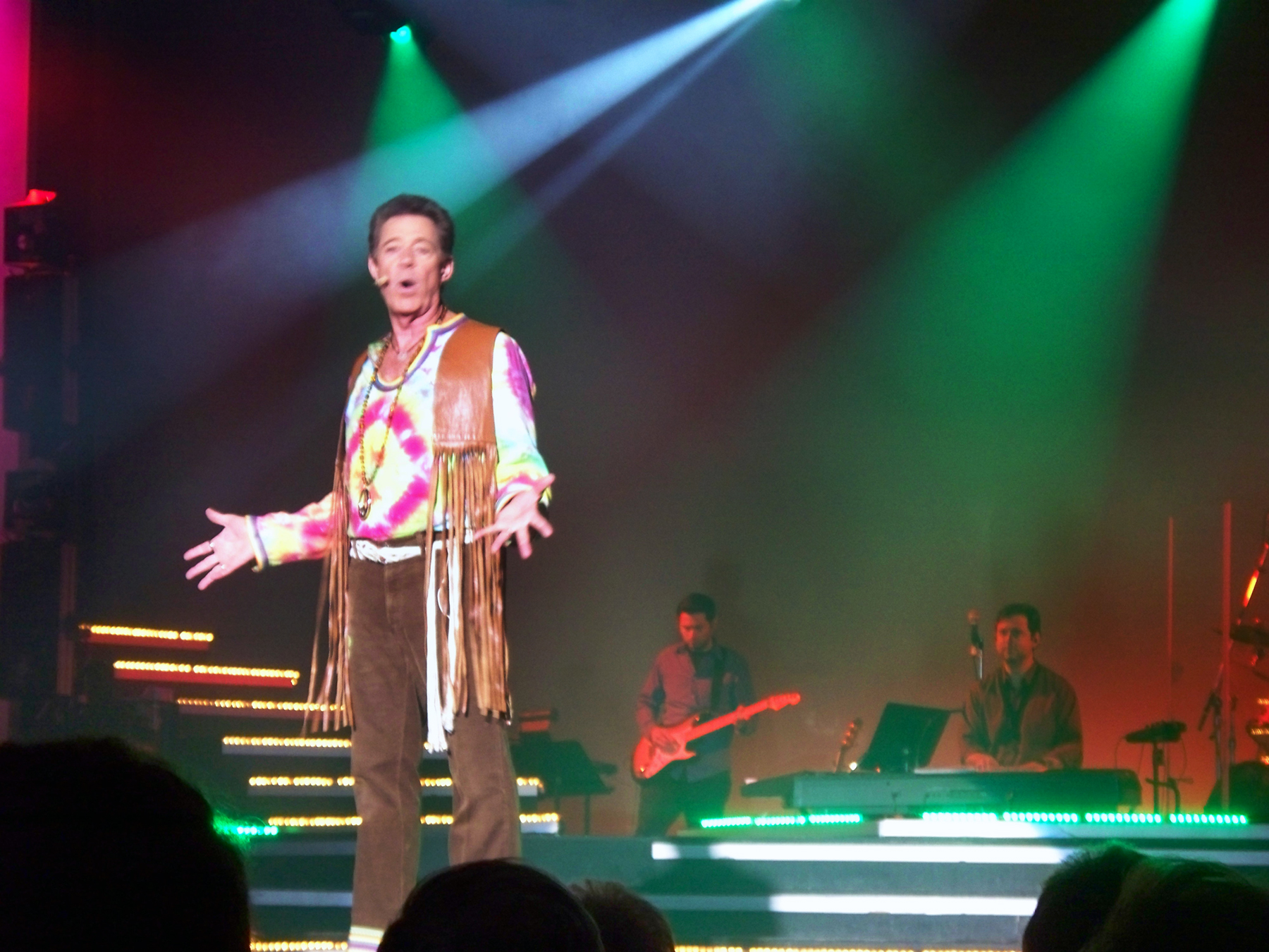 Actor and singer Barry Williams in his "70s Music Celebration! starring Barry Williams" show at Hughes Brothers Theatre in Branson, Missouri, October 12, 2014